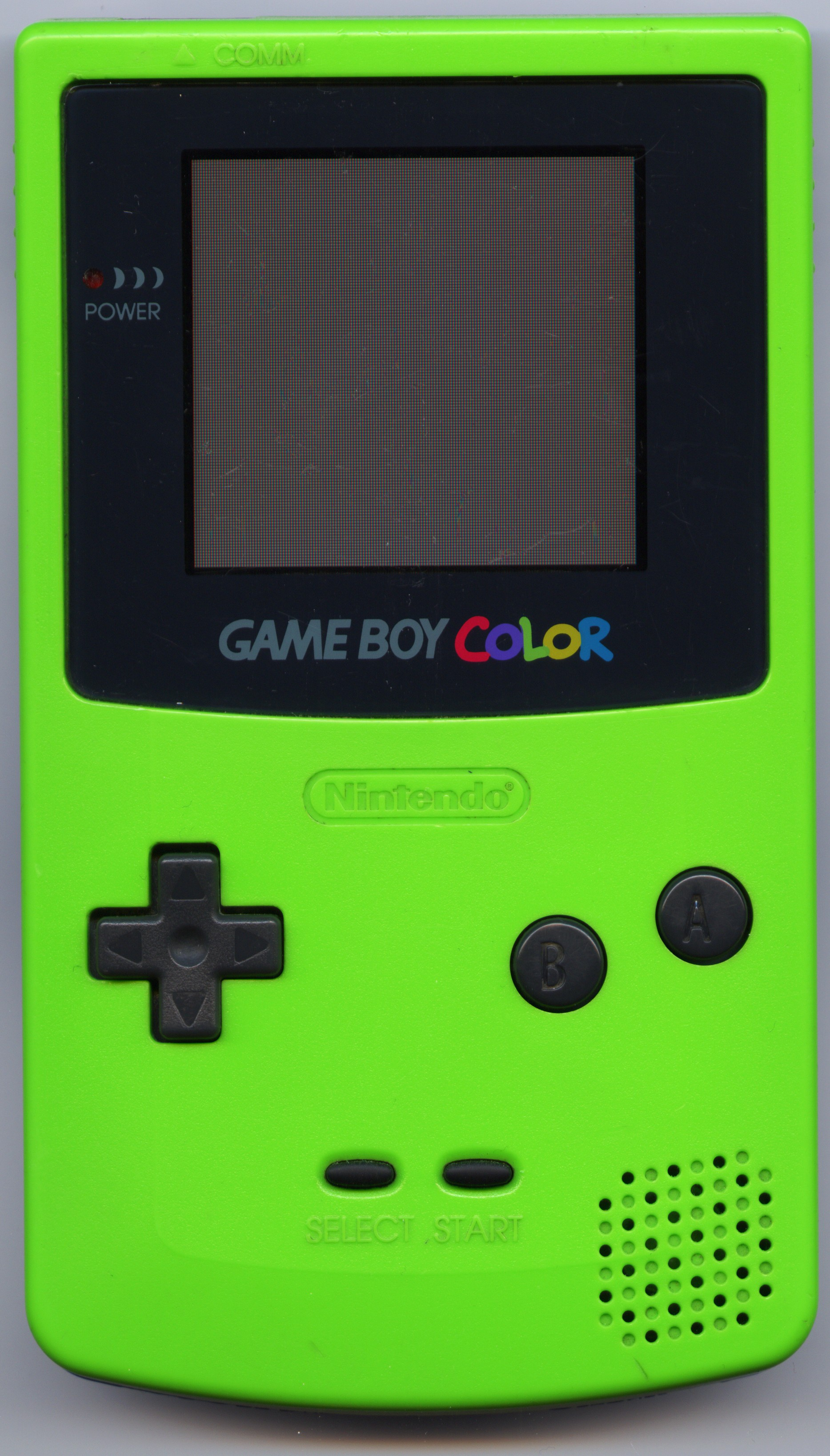 A high-resolution scan of a Game Boy Color